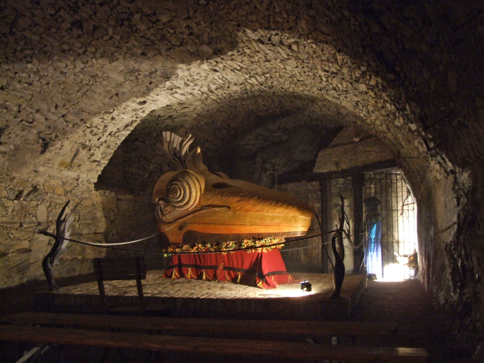 Lubo Kristek: Ptačí poslání, sarkofág, dřevo